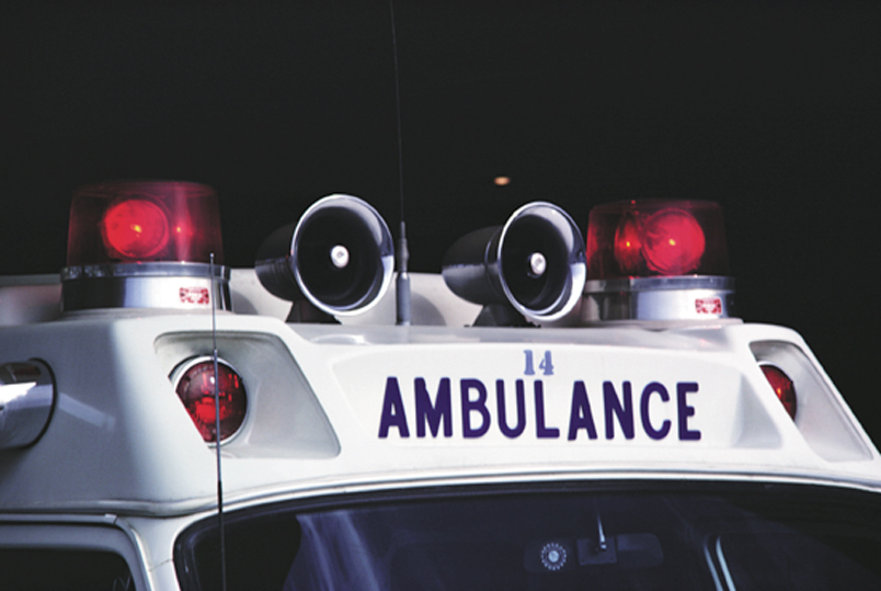 Red lights and sirens as installed on top of an ambulance. The image was found here.